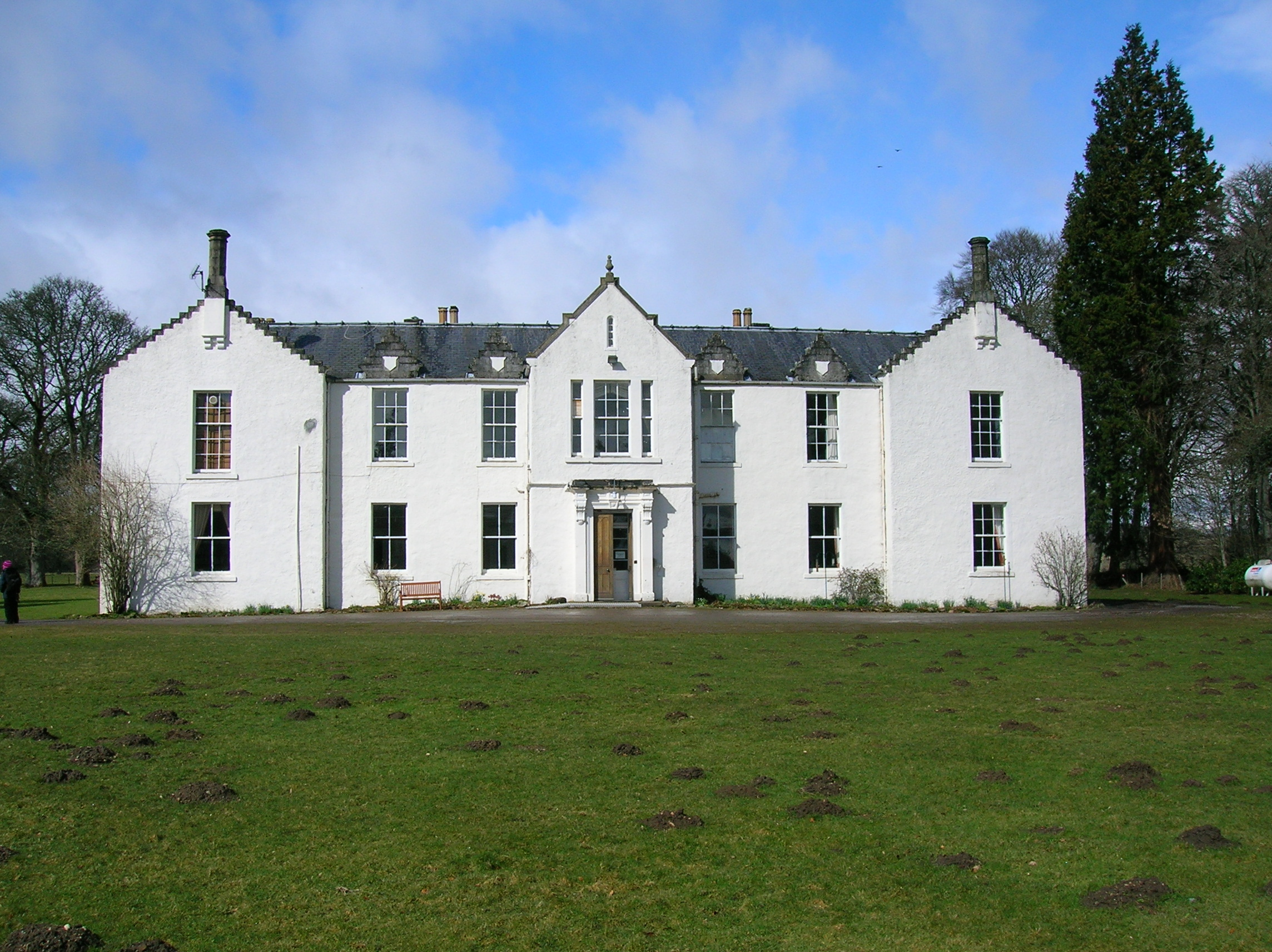 Kindrogan House, Field studies Centre, Perth & Kinross, Scotland